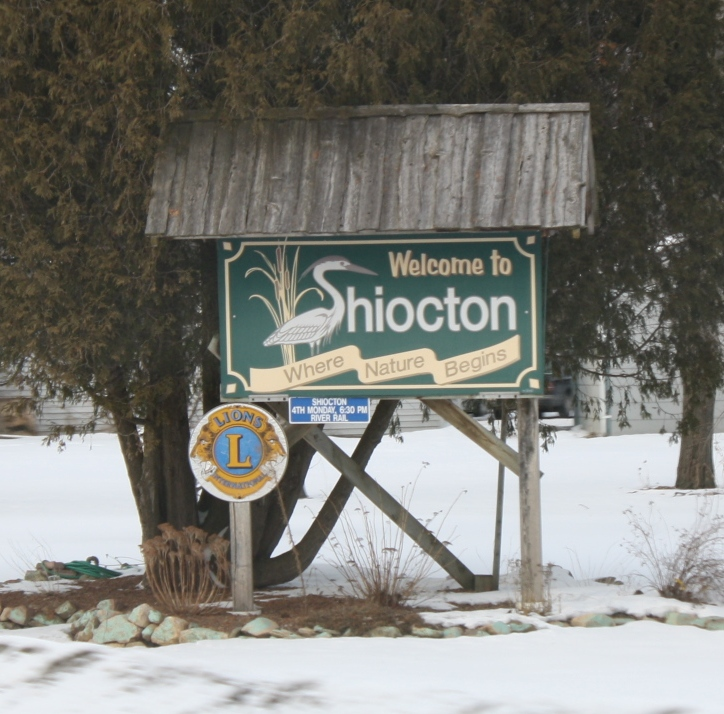 The city welcome sign for Shiocton, Wisconsin on Wisconsin Highway 76.